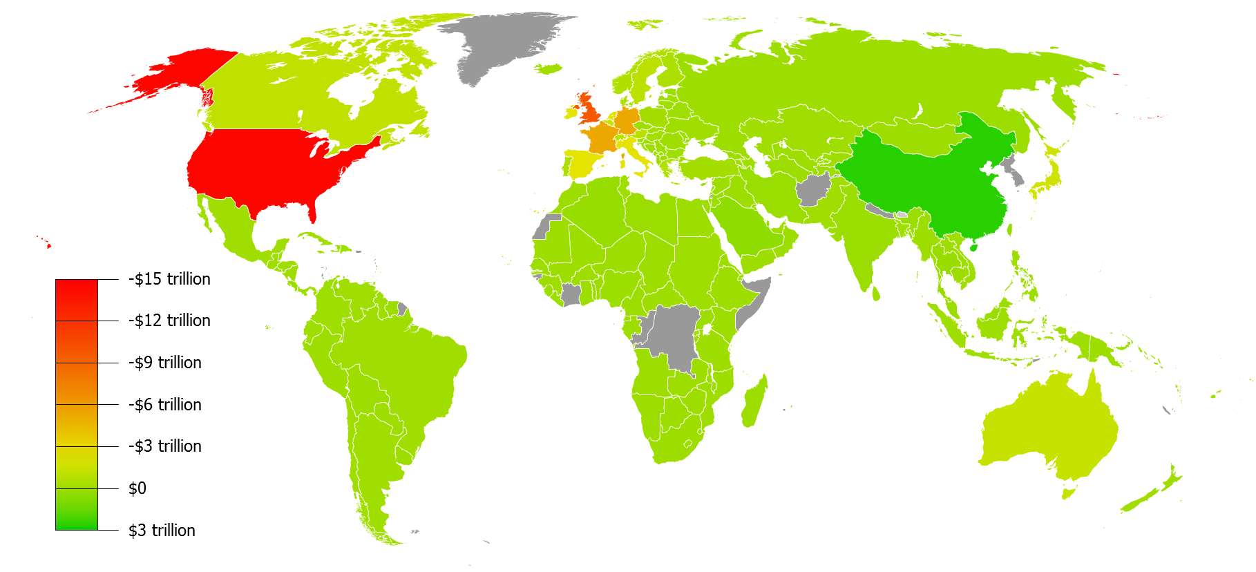 Updated version with 2011 data. Data was obtained from the CIA World Factbook, as per the original. Debt data can be found here, reserves data here. Note that this is total public and private debt. Improvements over the original: No country-specific comment about US debt Scale is linear, shows values for ticks, includes zero and uses human-readable gradations The linearity is important, as the previous image was showing the USA (14 trill), the UK (8 trill), France and Germany (4 trill each) as all being the same colour. That's most of the scale lost. With the current scale, the gradations between the seriously indebted countries are easier to see. -Kierano (talk) 18:27, 5 March 2012 (UTC) This map was created with GunnMapGunnMap was created by Arthur Gunn and is available, free, at and attribute by linking to